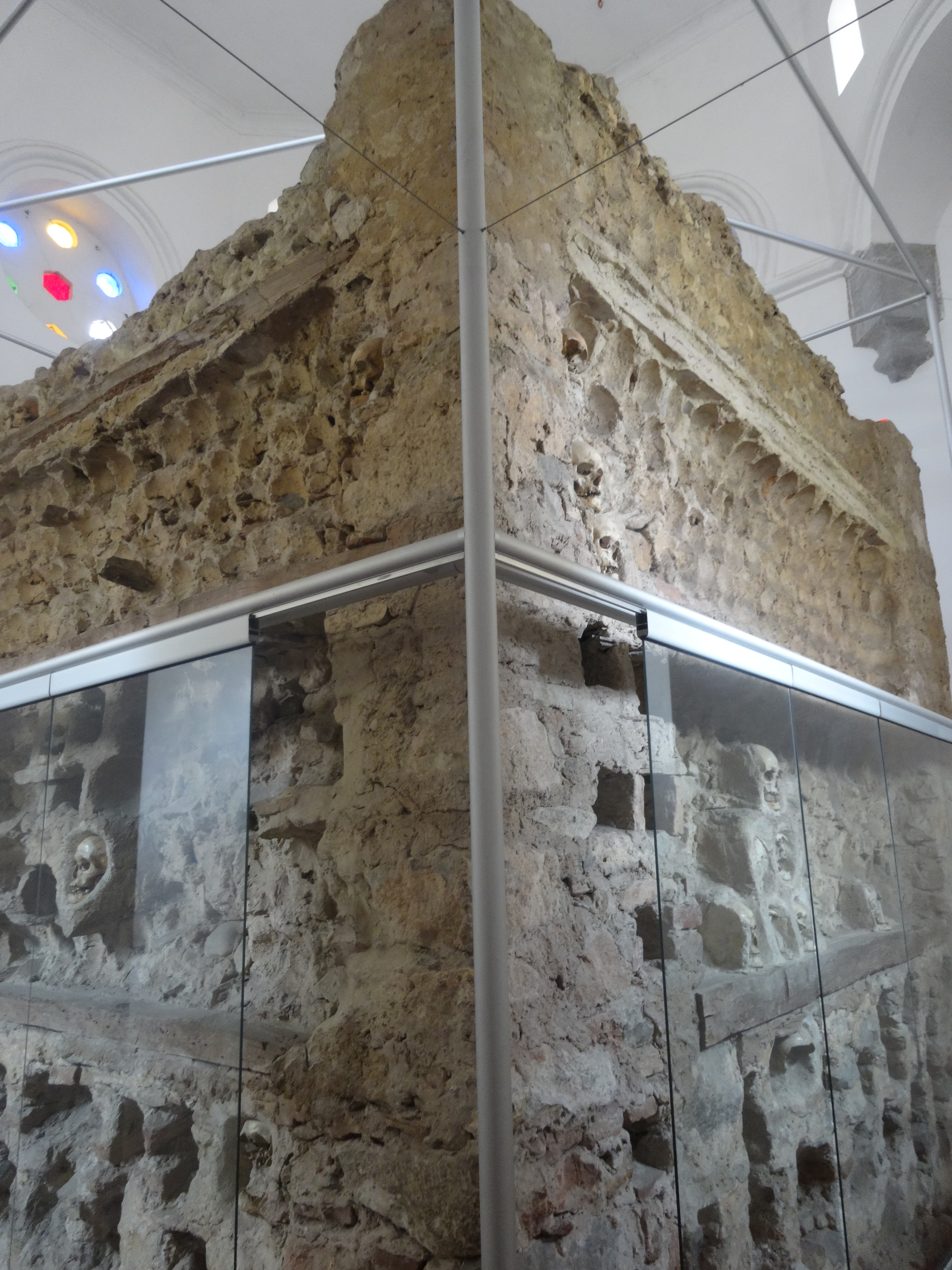 Skull Tower in Niš, Serbia